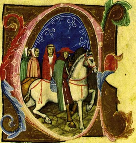 Gentilis cardinal travelling to Hungary (Illustrated Hungarian Chronicle of the 14th century)